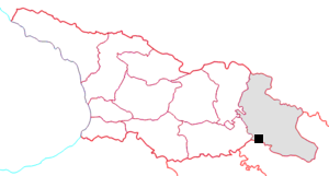 Location of the David Gareja monastery complex in Kakheti, Georgia, on the border with Azerbaijan